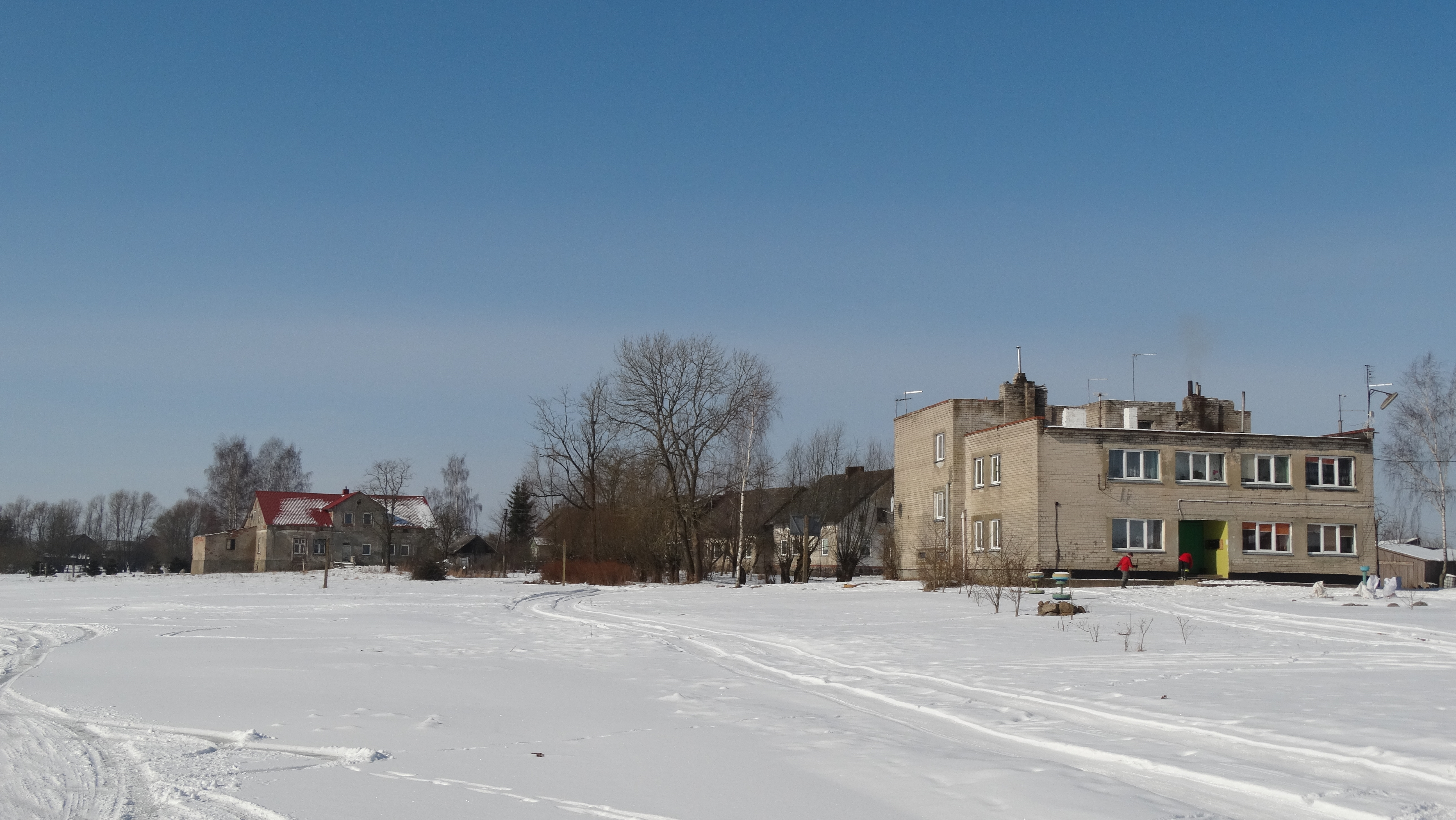 Plaškiai, Pagėgiai Municiality, Lithuania